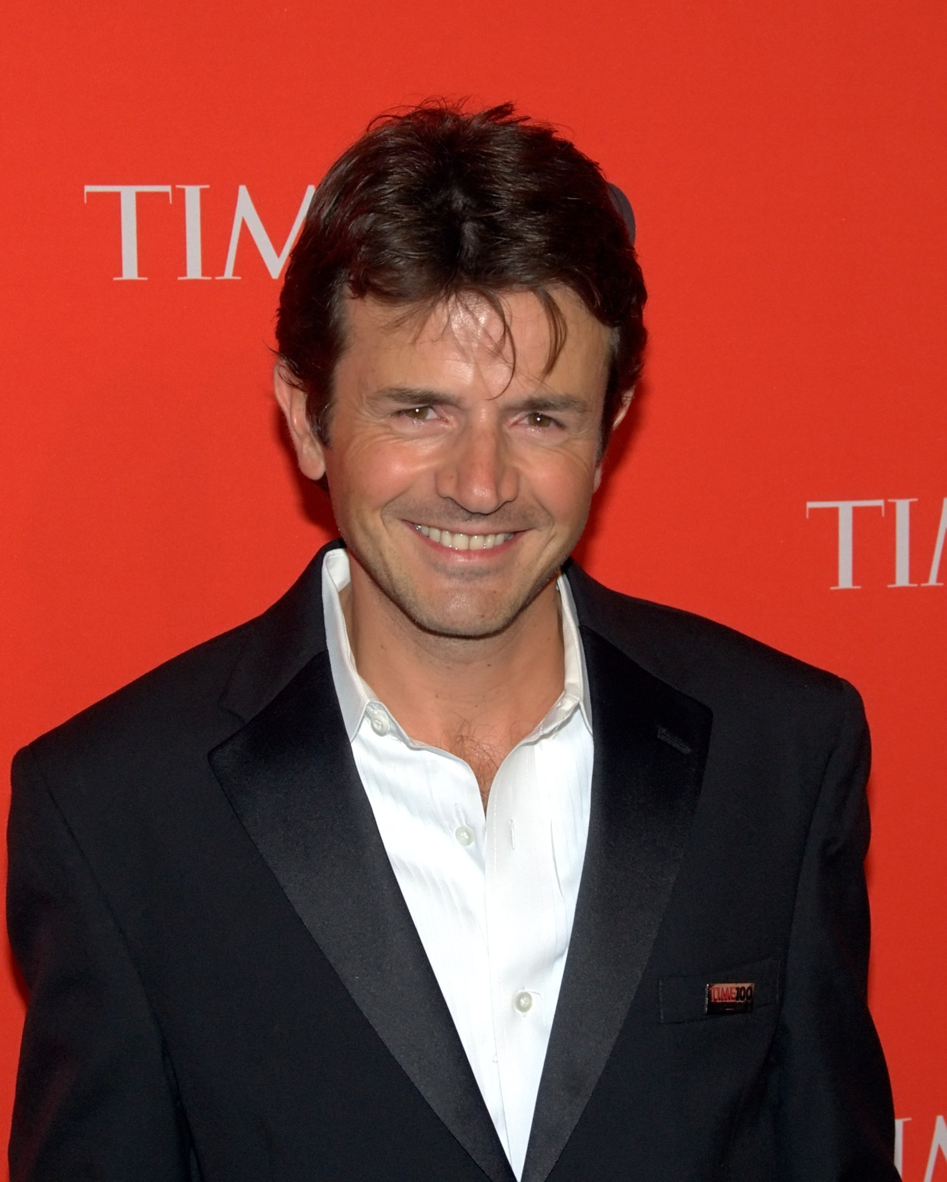 Tristan Lecomte of Alter Eco at the 2010 Time 100 Gala.